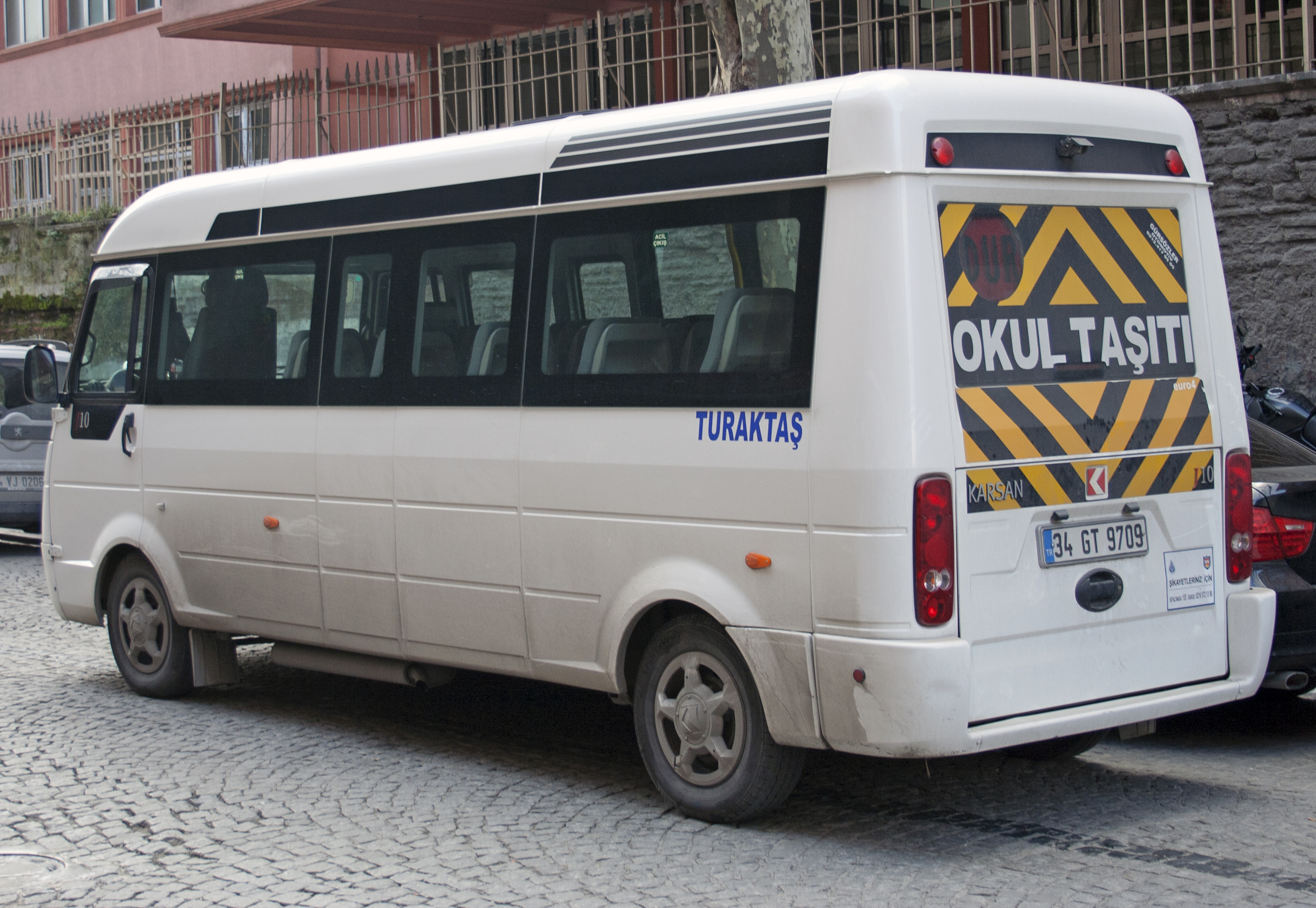 Rear of Karsan J10 school bus. This is the locally developed successor to the Karsan-built Peugeot J9.